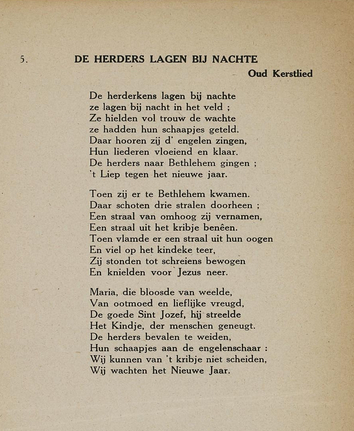 Broadsheet with lyrics Dutch christmas carol 'The shepherds where laying in the field at night' (sheet dating ca. second half 19th century). Collection Meertens Institute, Amsterdam.